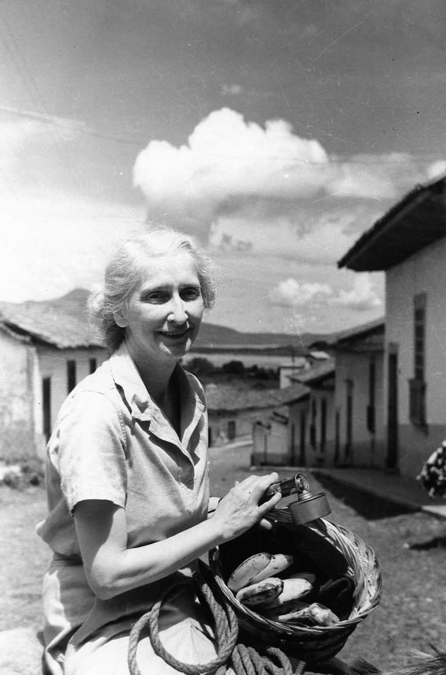 Doris Rosenthal sitting on the back of a burro in Pátzcuaro, Mexico, before setting out on a sketch trip into the mountains.